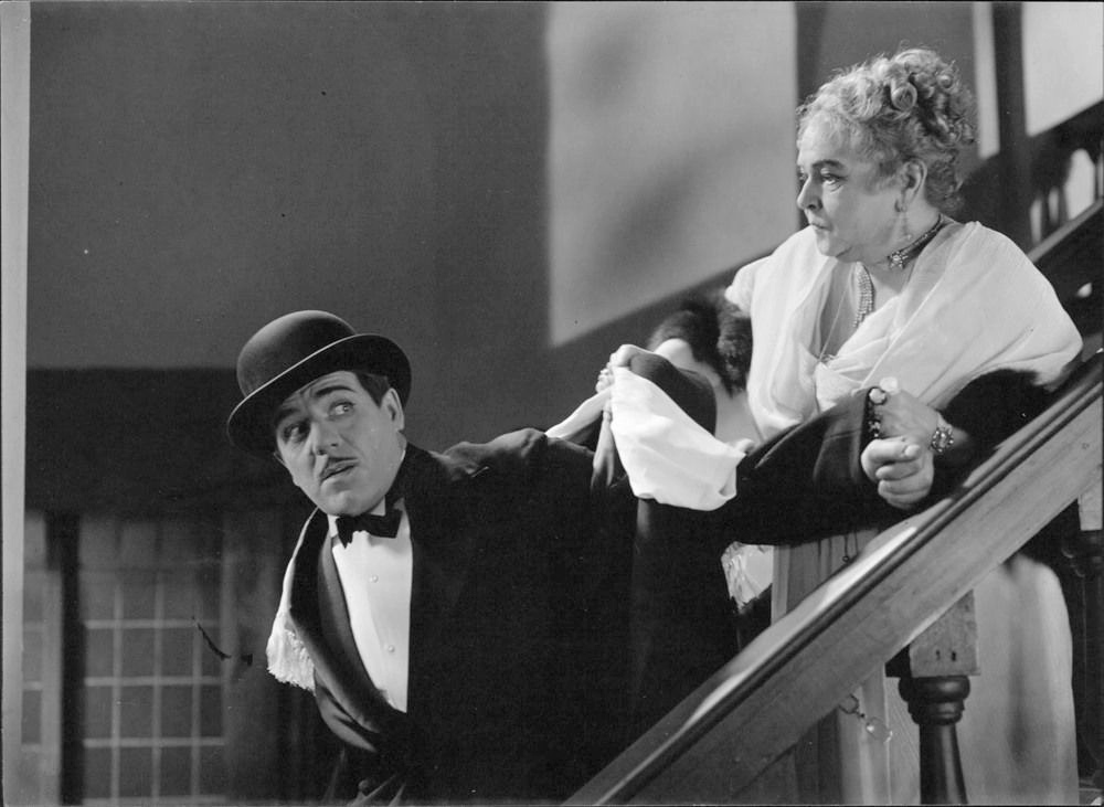 Adolf Jahr and Karin Swanström in the comedy film "Fasters Millioner" (My aunt's millions) from 1934.